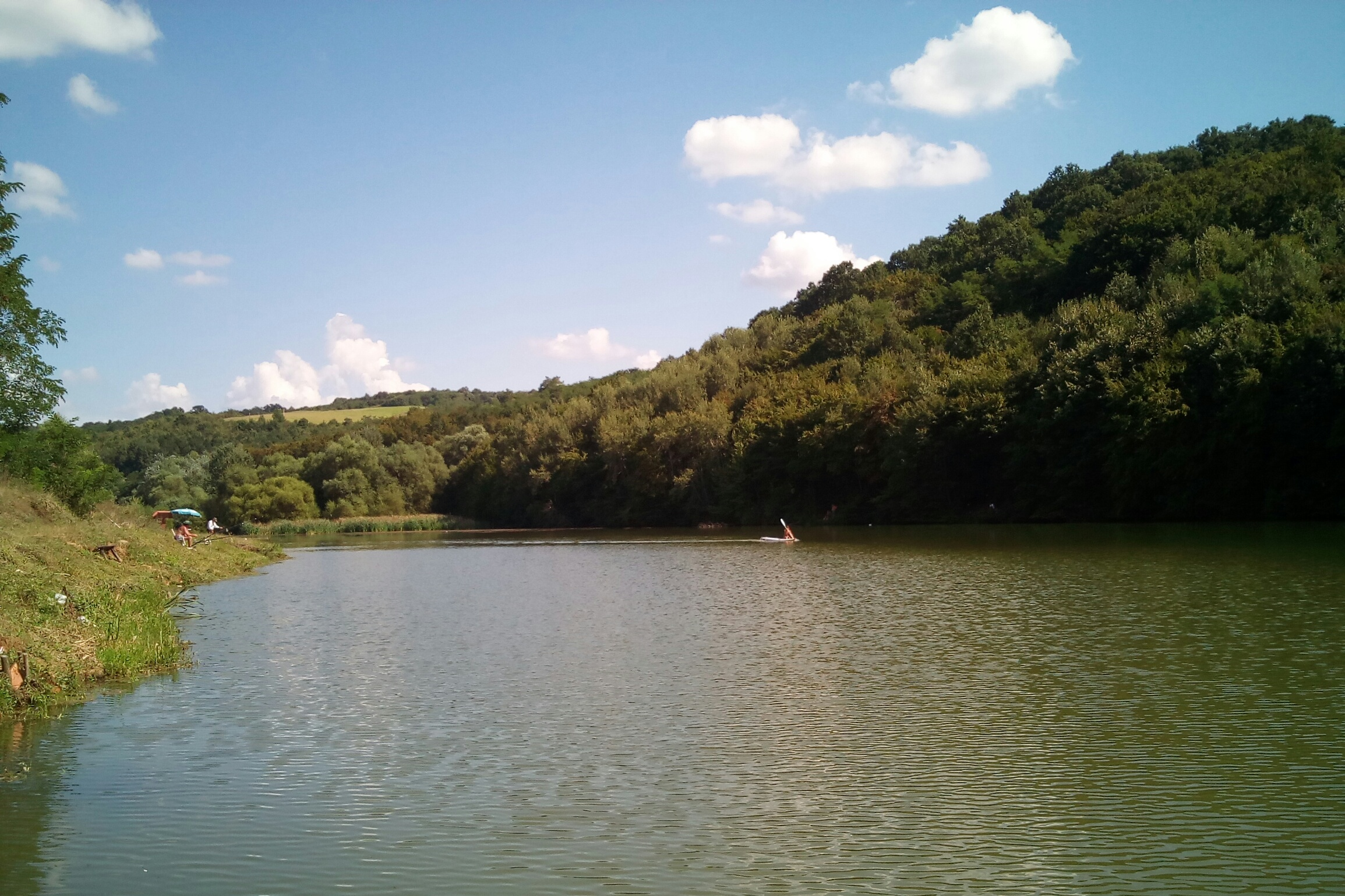 Duboki Potok Lake / Barajevo / August 2016.